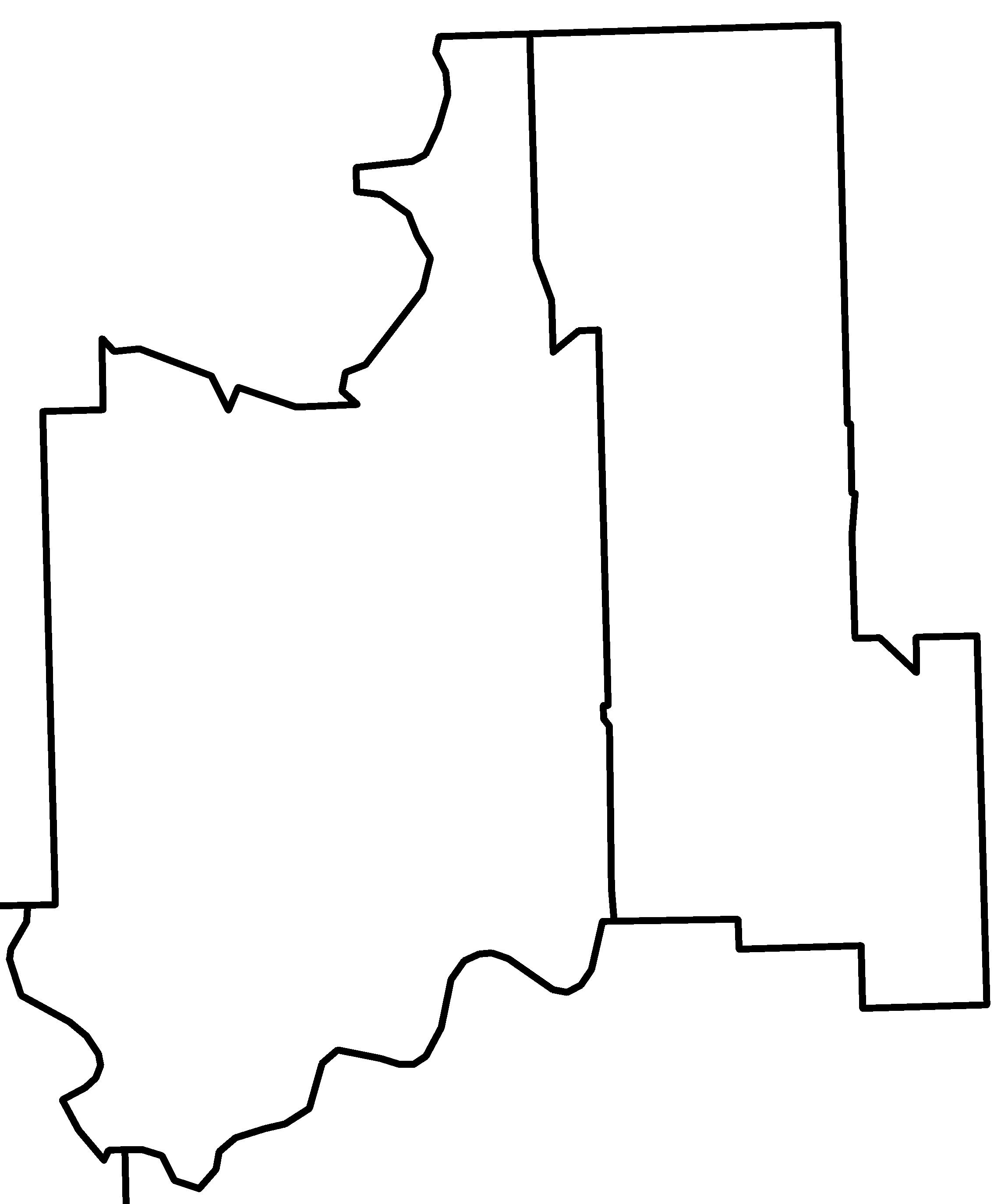 A map of Alberta provincial electoral districts, effective 2010, in the Lethbridge area.